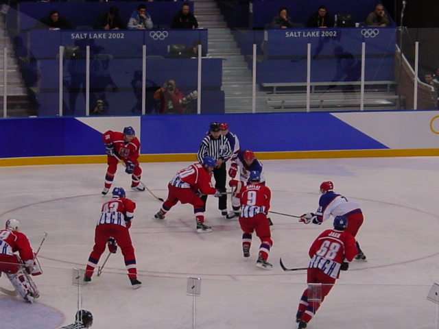 Russia vs. the Czech Republic in a quarterfinal game at the 2002 Winter Olympics.